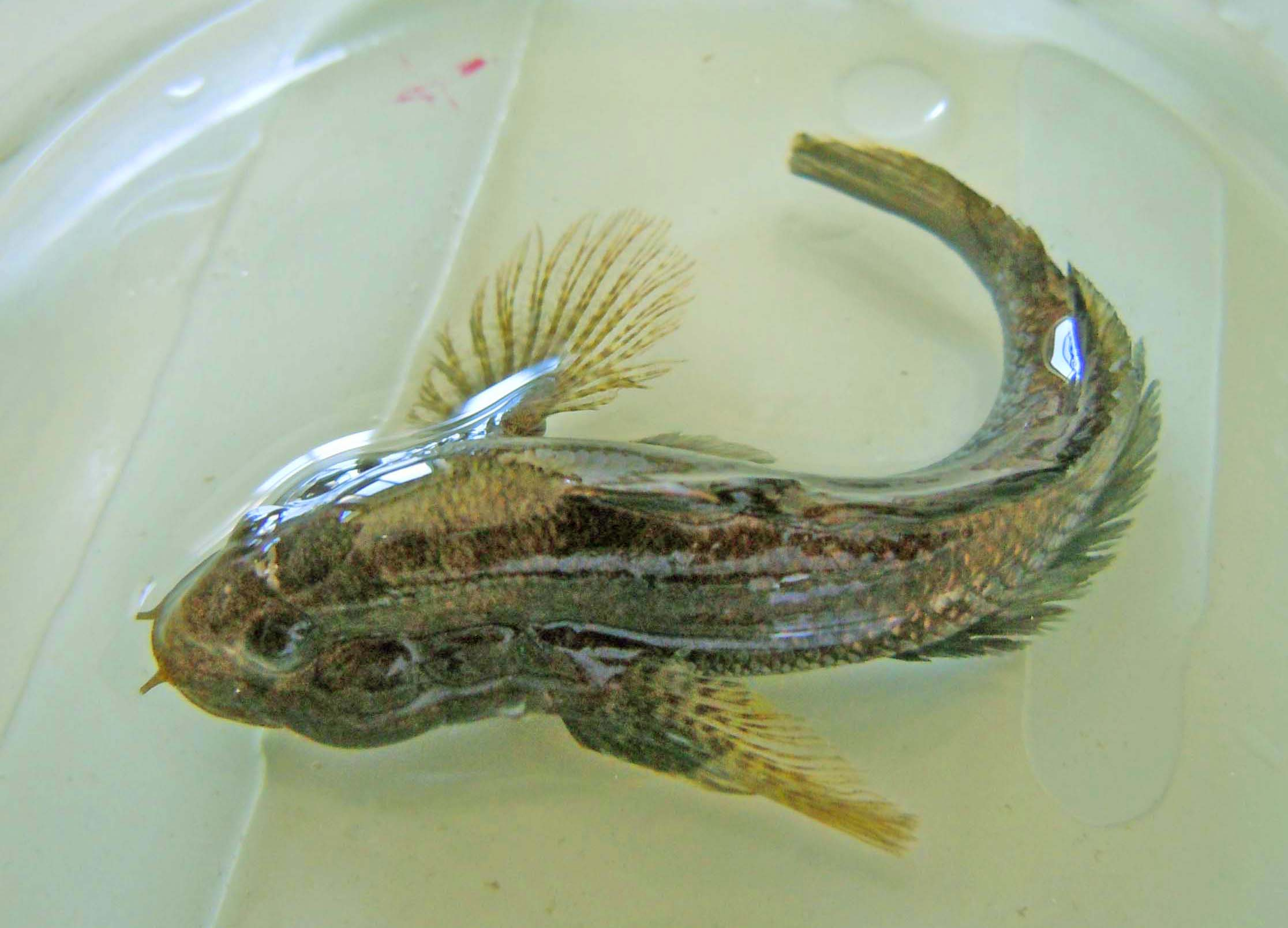 The western tubenose goby (Proterorhinus semilunaris) from the Baraboy River, south-western Ukraine